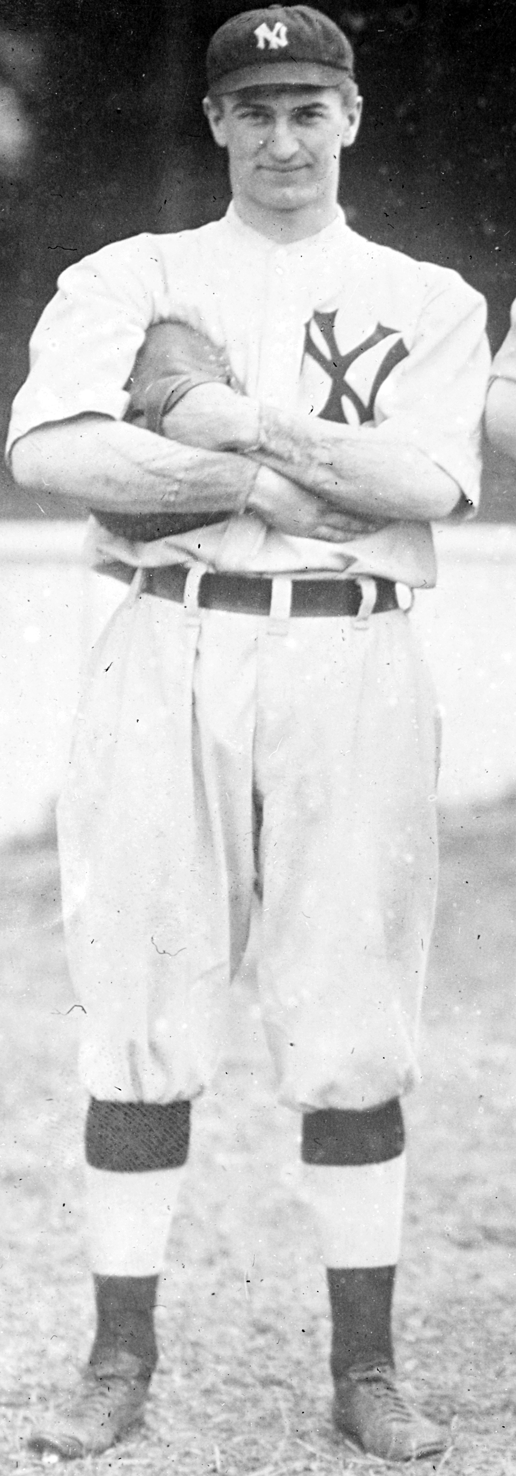 Pius L. Schwert, US Representative from New York, during his time as a Catcher for the New York Yankees